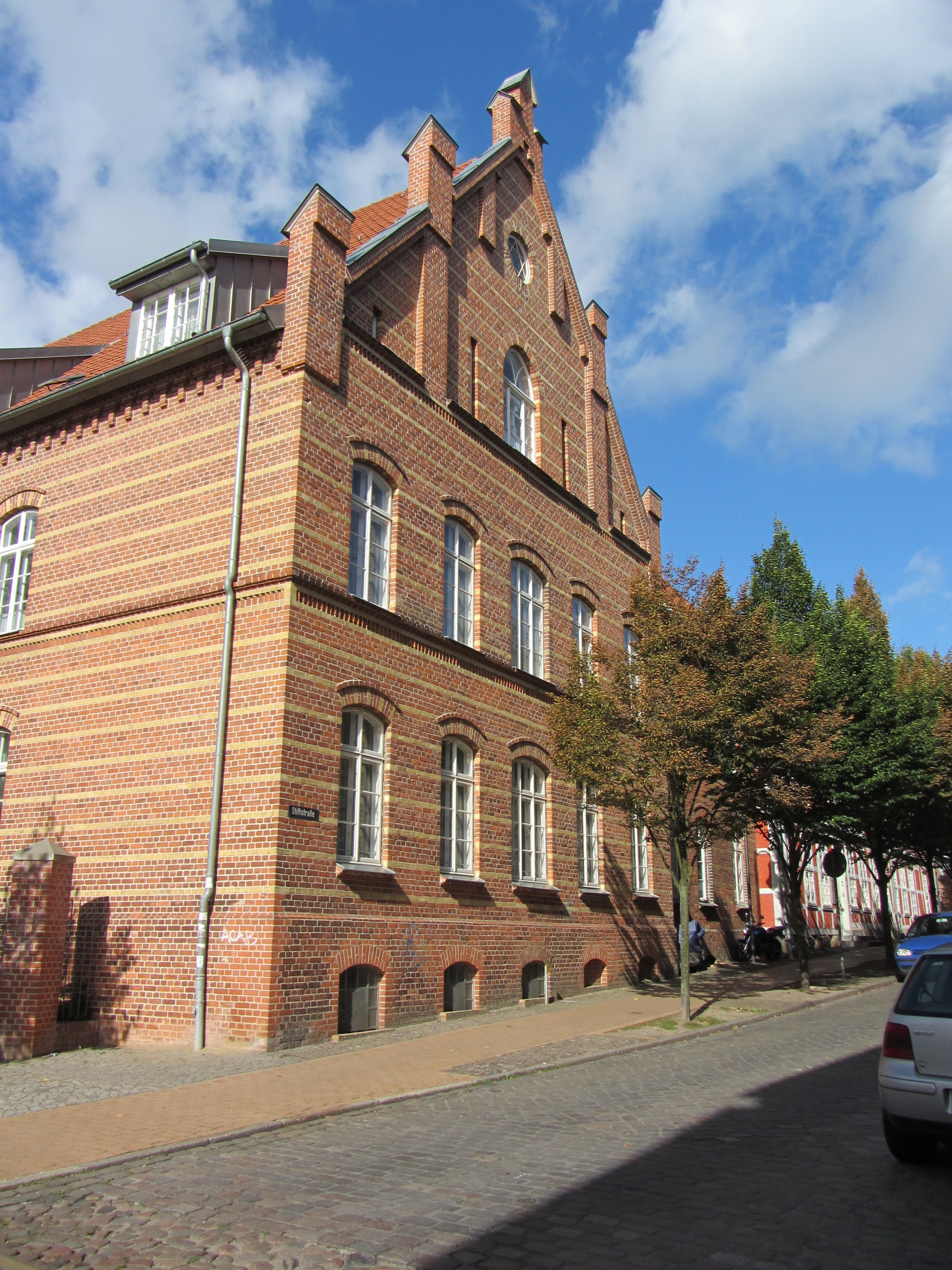 Augustenstift in Schwerin, Mecklenburg-Vorpommern, Germany